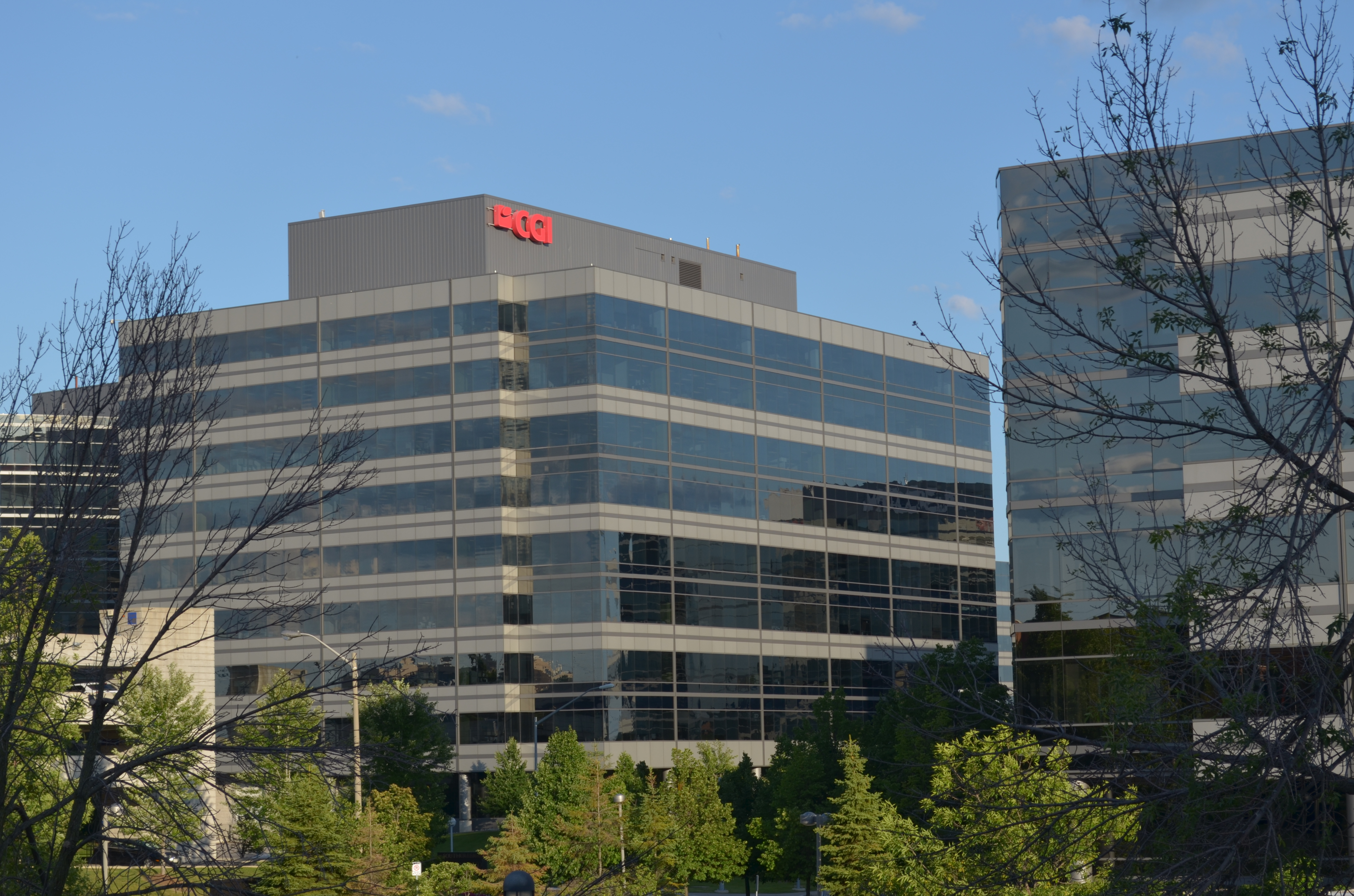 CGI Markham, 150 Commerce Valley Drive West, Markham